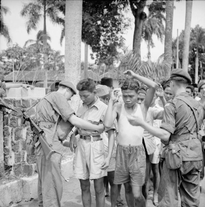 Men of the 12th Yorkshire Battalion, 5th Parachute Brigade, search suspects rounded up in Batavia during the operation to take control of all civil administration buildings in the city.